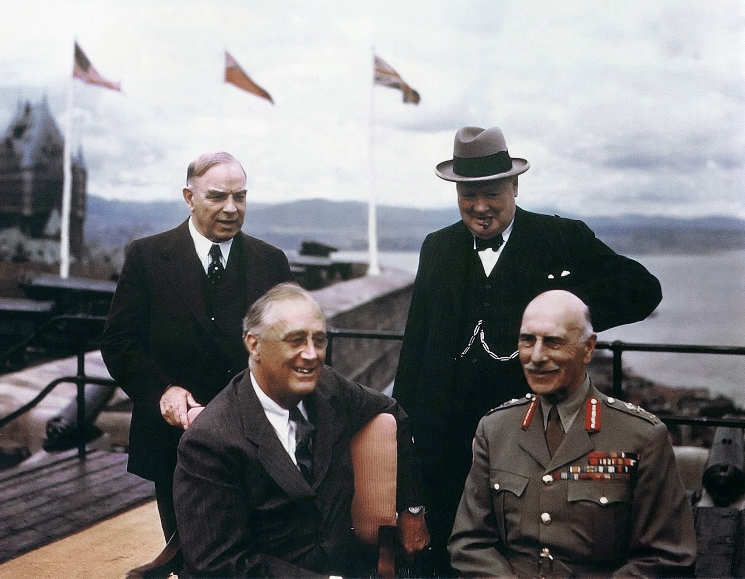 William Lyon Mackenzie King, Prime Minister of Canada; Winston Churchill, Prime Minister of the United Kingdom; Franklin D. Roosevelt, President of the United States of America; and Major-General Sir Alexander Cambridge, 1st Earl of Athlone, Governor-General of Canada, on the terrace of the Citadel in Québec, Canada, during the Québec Conference in which the invasion strategy for Normandy was discussed.